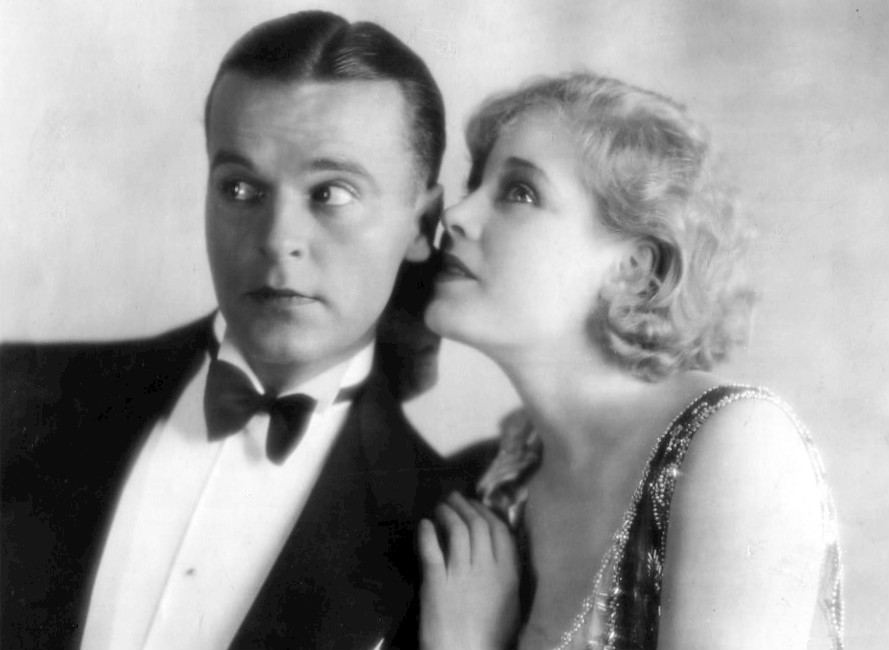 Still with Esther Ralston and Neil Hamilton from the American comedy film Something Always Happens (1928).